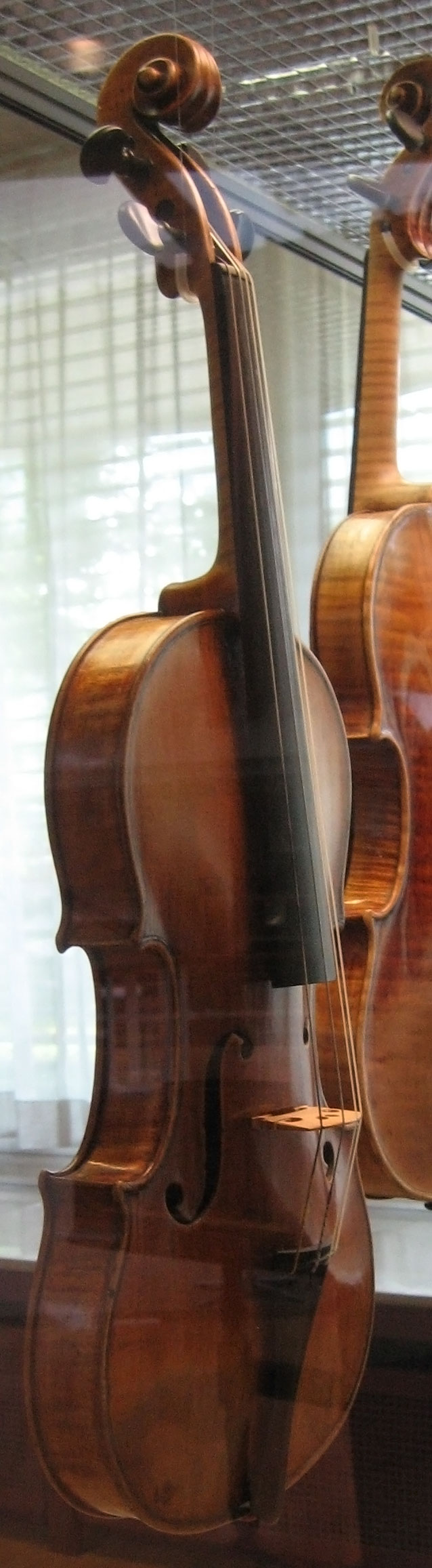 The image of the Antonio Stradivari violin of 1703 (profile). Picture taken at the Musikinstrumenten Museum, Berlin.